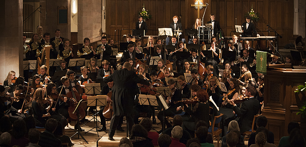 The Edinburgh University Music Society Symphony Orchestra performs Mahler in Greyfriars Kirk, Edinburgh.